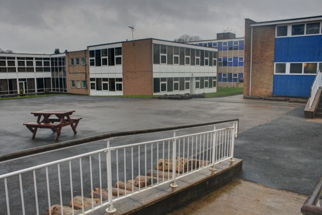 Tadcaster Grammar School